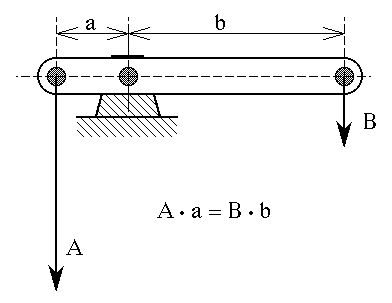 Illustration shows a static situation where the forces keep each other in balance due to the same ratio distances of the forces to the fulcrum. Own work. Johjak 15:09, 15 August 2006 (UTC)